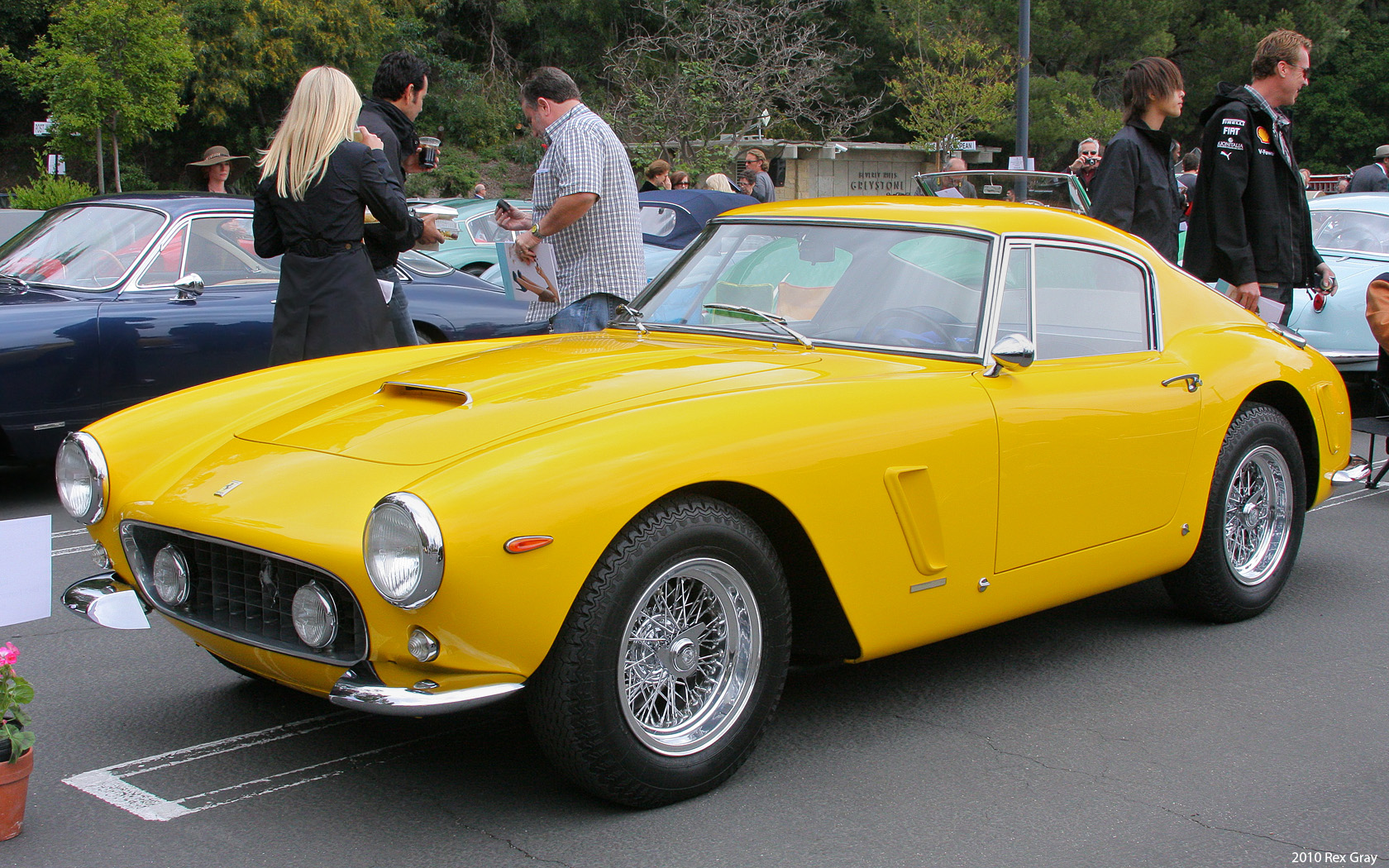 Greystone Mansion Inaugural Concours d'Elegance, April 11, 2010